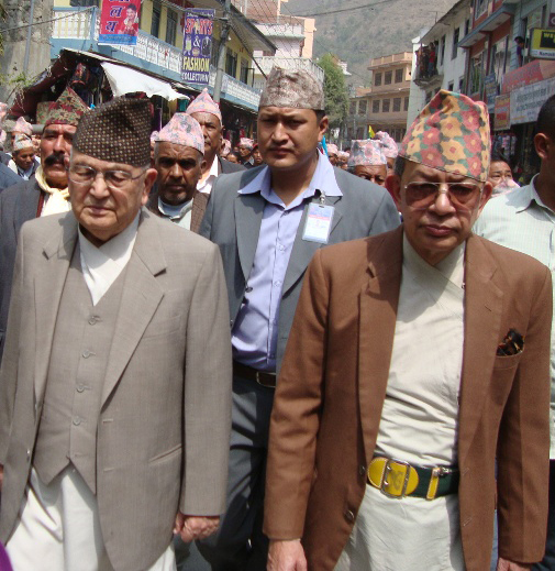 Two leaders of Nepal.